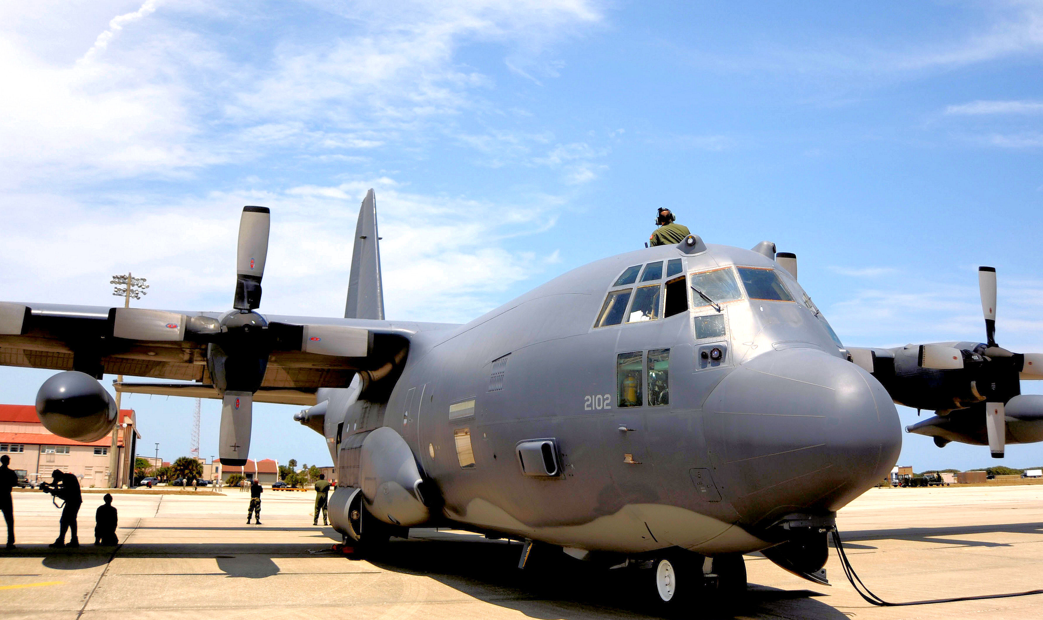 Members of the Air National Guard's 106th Rescue Wing, 102nd Rescue Squadron, from F.S. Gabreski Airport in Westhampton Beach, N.Y. along with Pararescuemen (PJ) from the 131st Rescue Squadron, from Moffett Federal Airfield, located near Mountain View, Ca., watch from Patrick Air Force Base, Fla. as NASA's space shuttle mission, STS-125, launches from NASA's Kennedy Space Center on May 11, 2009. The launch of STS-125 marked the 106th Rescue Wing's 100th rescue mission support since beginning their participation in 1988. (U.S. Air Force photo/Staff David J. Murphy)